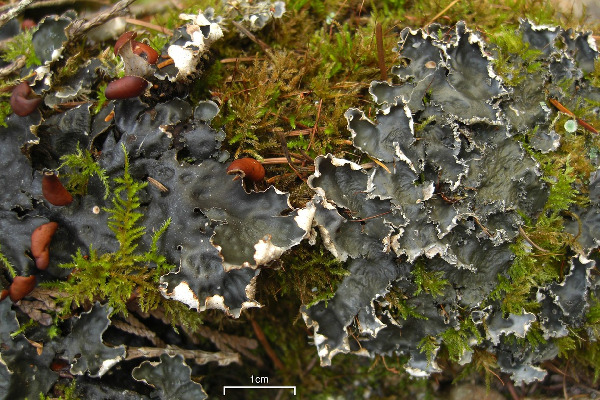 Peltigera horizontalis and Peltigera elisabethae 20090920.14 Canada, BC, Wells Gray Park I'm told that the ideal habitat for these two species has little overlap, so it is a treat to see two such nice specimens growing side by side; P. horizontalis on left, P. elisabethae on right. (Trevor Goward identified these for me in the field.)